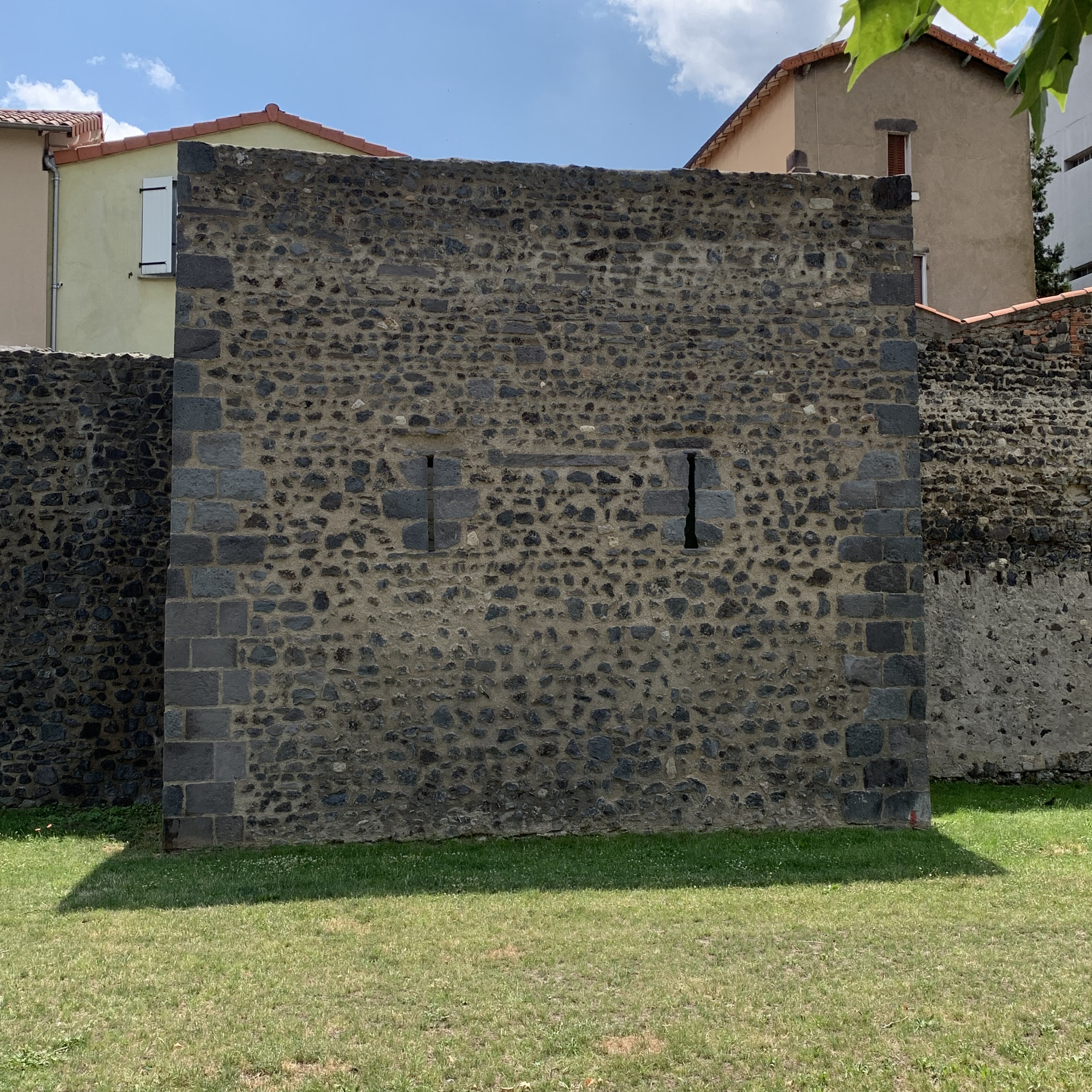 Old City Quarter, Clermont-Ferrand, France